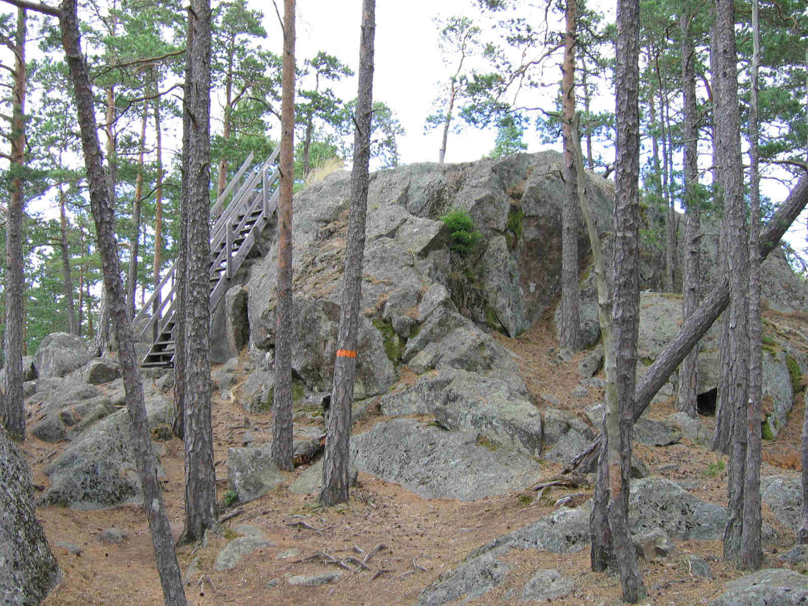 my own pic for wikipedia use